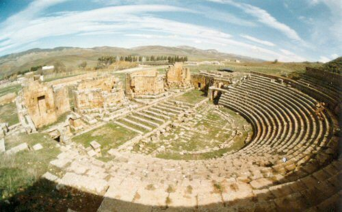 Description= Roman Theatre, Khamissa (Algeria) photo token by M.GASMI 2005. Source= Own photograph by uploader. Author= M.GASMI.